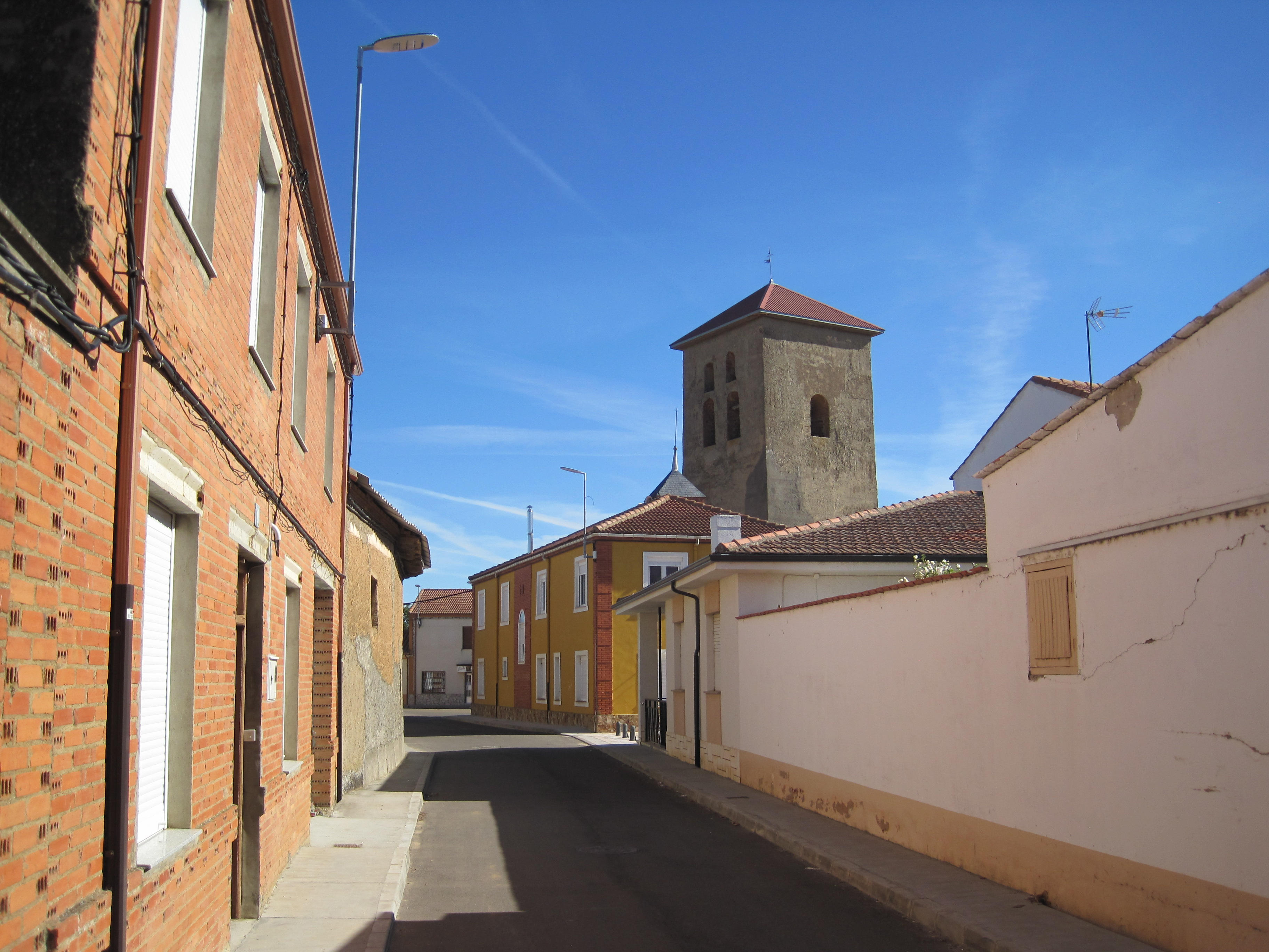 Imagen tomada en Bercianos del Páramo (León).